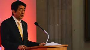 Prime Minister Abe's speech on the 70th anniversary of World War II